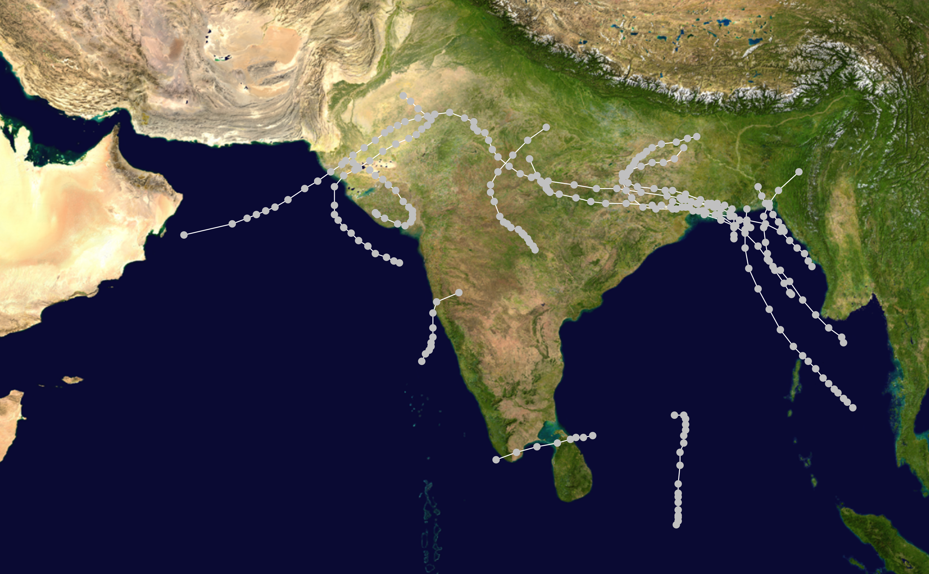 This map shows the tracks of all tropical cyclones in the 1961 North Indian Ocean cyclone season. The points show the location of each storm at 6-hour intervals. The colour represents the storm's maximum sustained wind speeds as classified in the Saffir-Simpson Hurricane Scale (see below), and the shape of the data points represent the nature of the storm. Saffir–Simpson hurricane wind scale Tropical depression≤38 mph≤62 km/h Category 3111–129 mph178–208 km/h Tropical storm39–73 mph63–118 km/h Category 4130–156 mph209–251 km/h Category 174–95 mph119–153 km/h Category 5≥157 mph≥252 km/h Category 296–110 mph154–177 km/h Unknown Storm typeTropical cycloneSubtropical cycloneExtratropical cyclone / Remnant low / Tropical disturbance